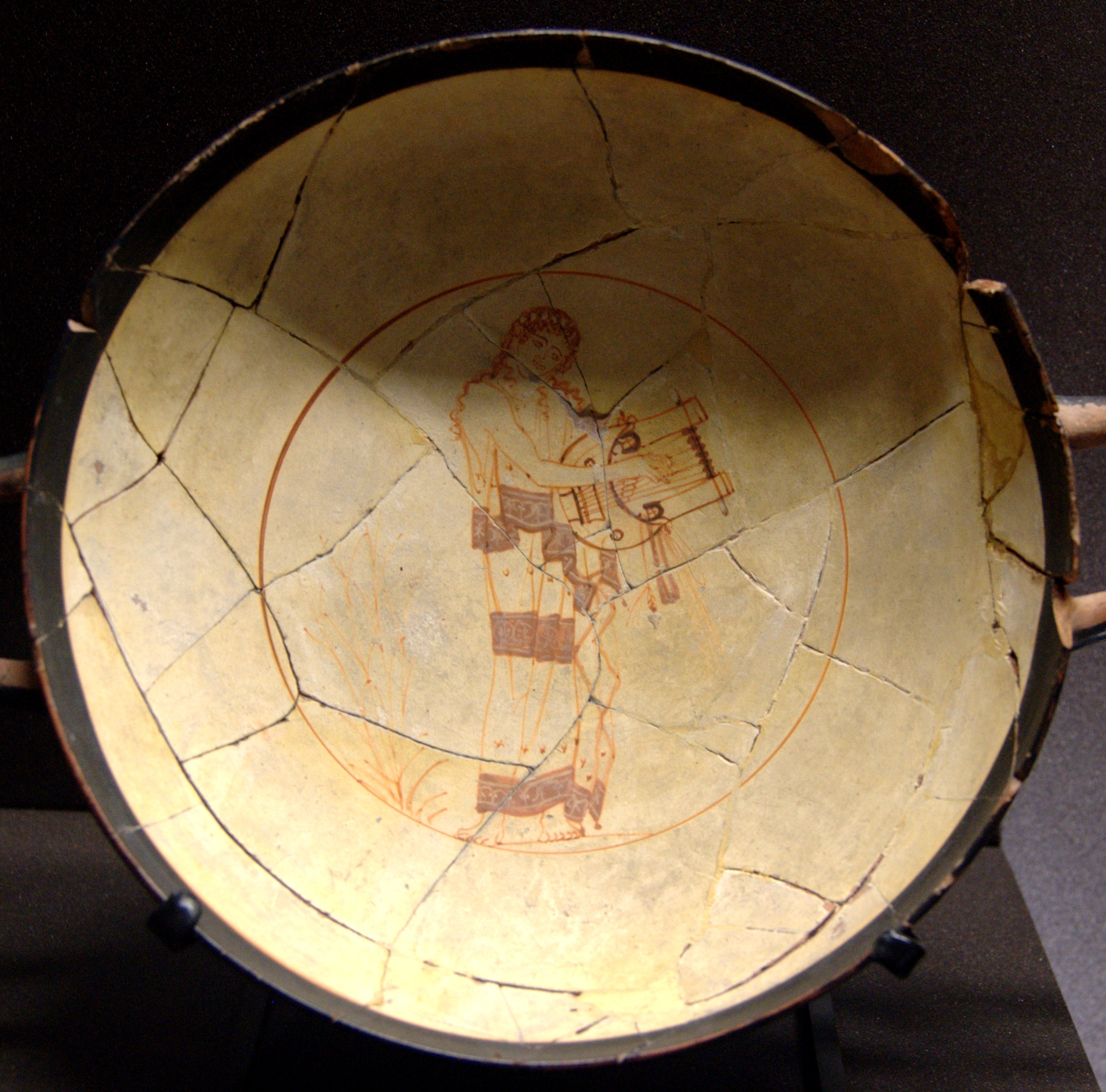 Muse playing kithara. Tondo from a white-ground Attic cup, 470–460 BC. From Eretria.